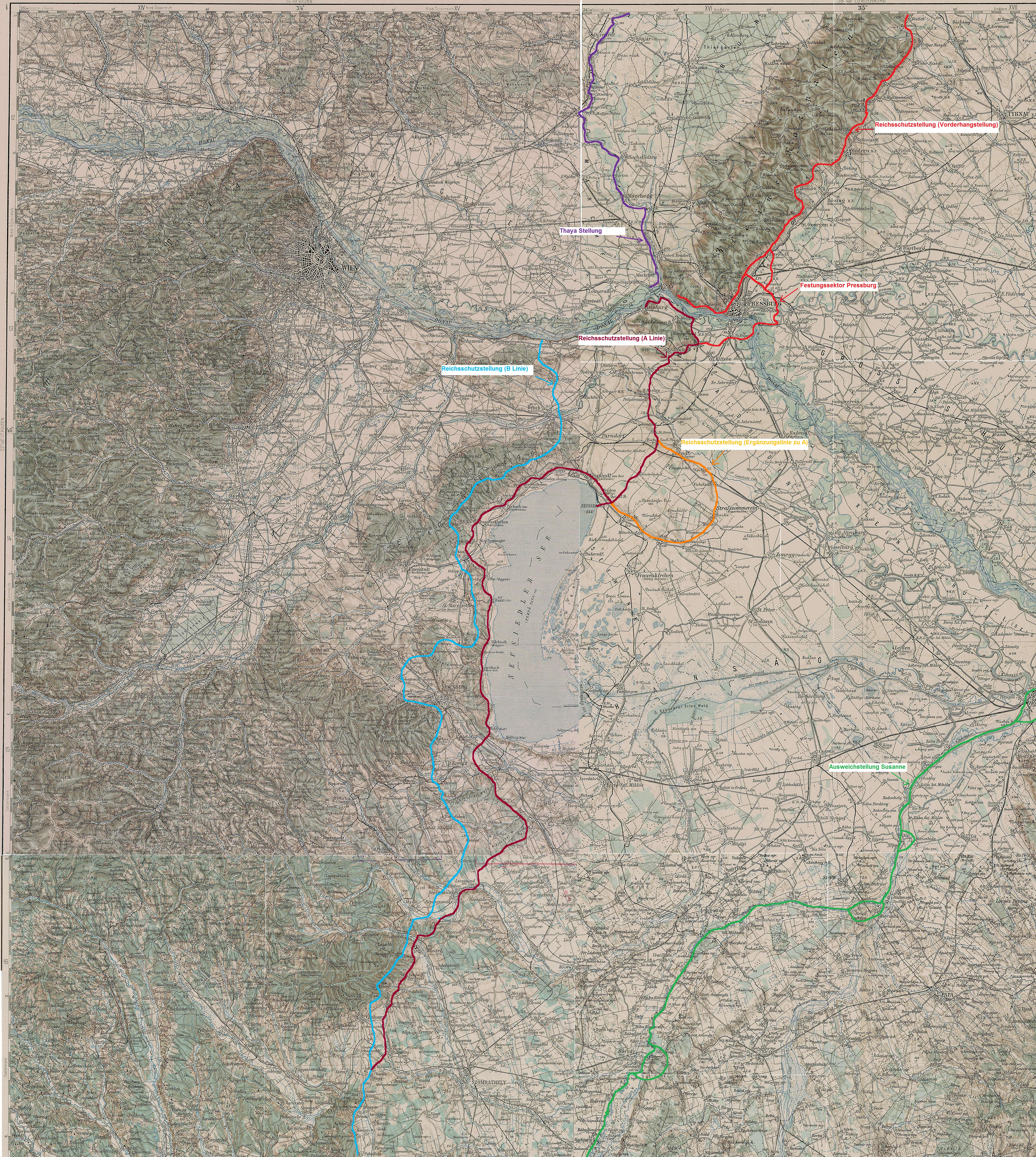 Fronline map ww2 marked in by myself on basis of a map from the 3rd Military Mapping Survey of Austria-Hungary